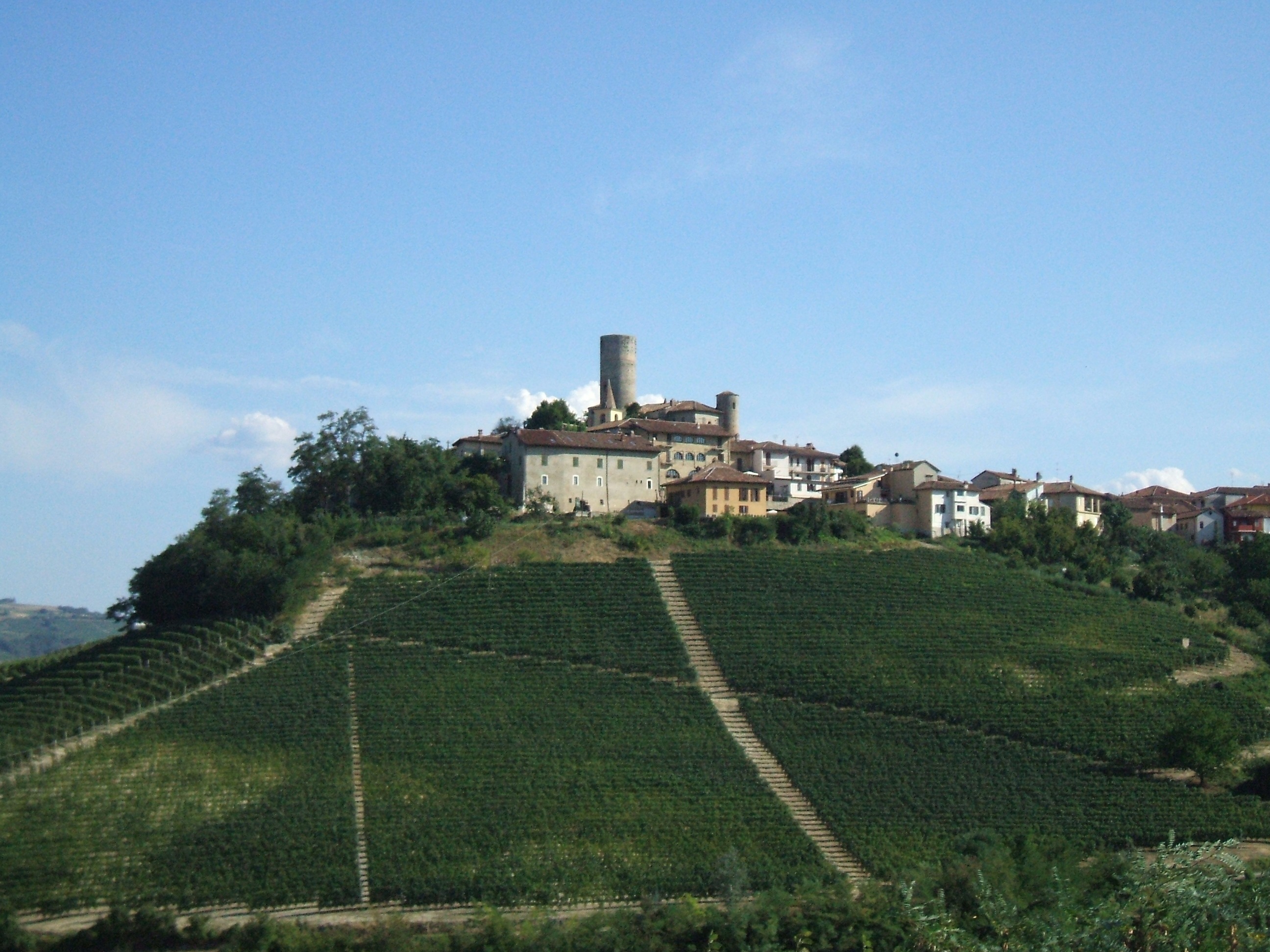 Castiglione Falletto, Piedmont, Italy - the village